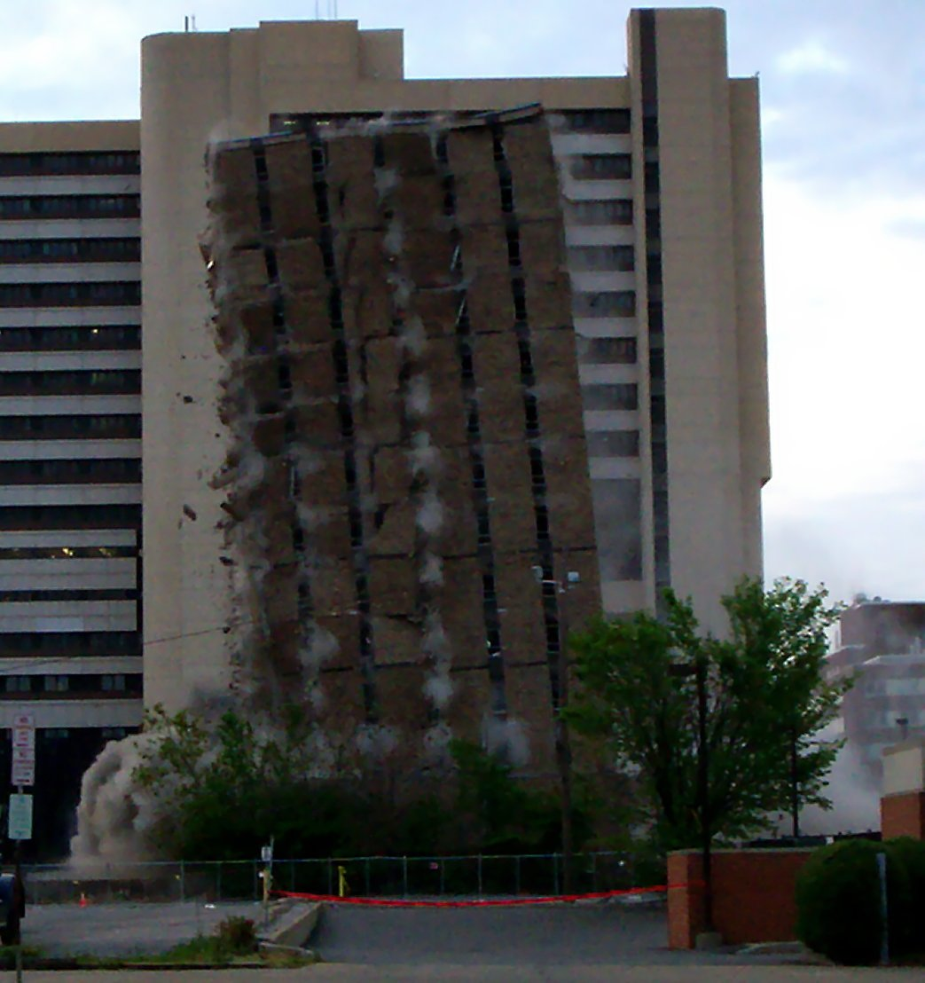 Implosion of a former abortion clinic and medical center at 50 High Street in Buffalo, New York on May 26, 2007, 6:00 a.m. [eastern time]. It was imploded to expand the Buffalo Niagara Medical Campus which includes Rosewell Park Cancer Institute.